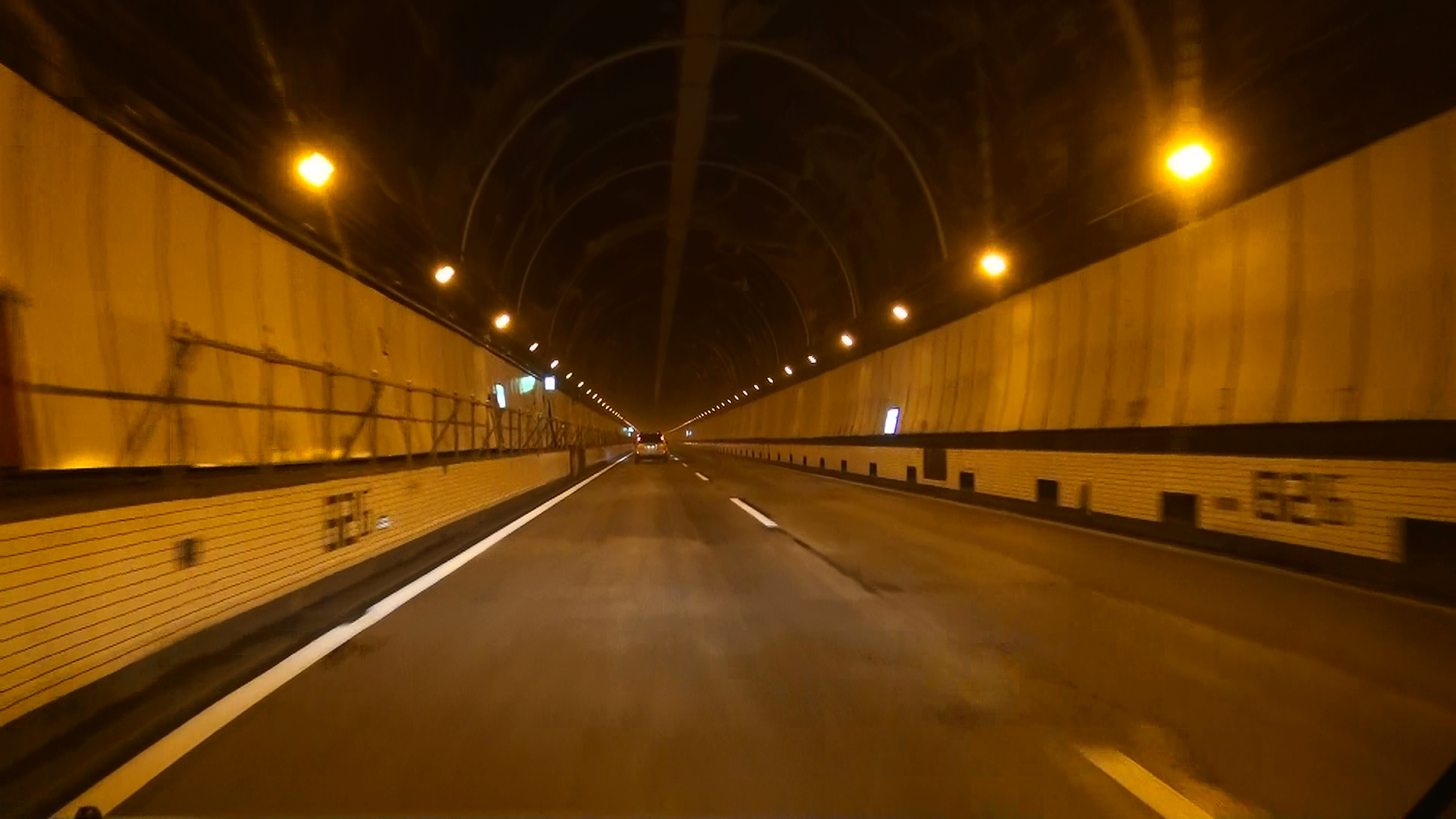 Sasago tunnel ceiling board crash point. A photograph was taken at 16:13 JST on February 8, 2013 which carried out restoration opening of traffic.